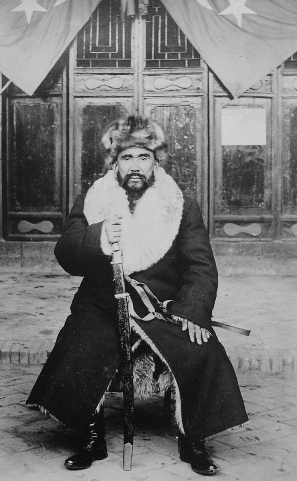 Hoja Niyaz Haji also Xoja Niyaz Haji was a Uyghur independence movement leader who led several rebellions in Xinjiang, the first and only president of the short-lived Turkish Islamic Republic of Eastern Turkestan